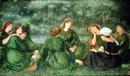 Green Summer (watercolour or gouache on paper, 1864). The models include Jane Morris (center, holding a peacock feather) and Georgiana Burne-Jones (second from right, reading a book. A version in oils was completed in 1868.